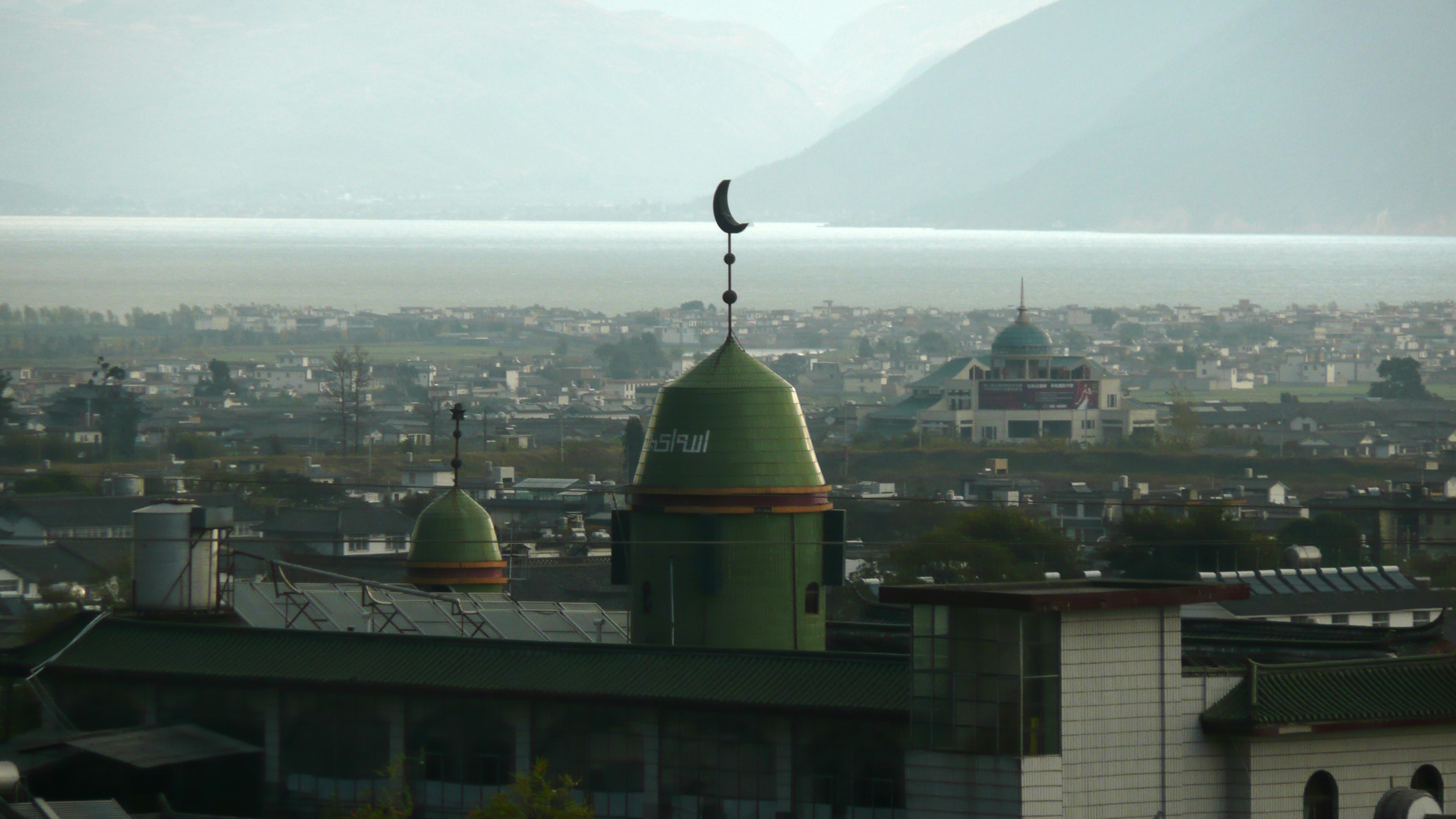 Erhai - Lake of Dali (Yunnan) - View over the old town of Dali